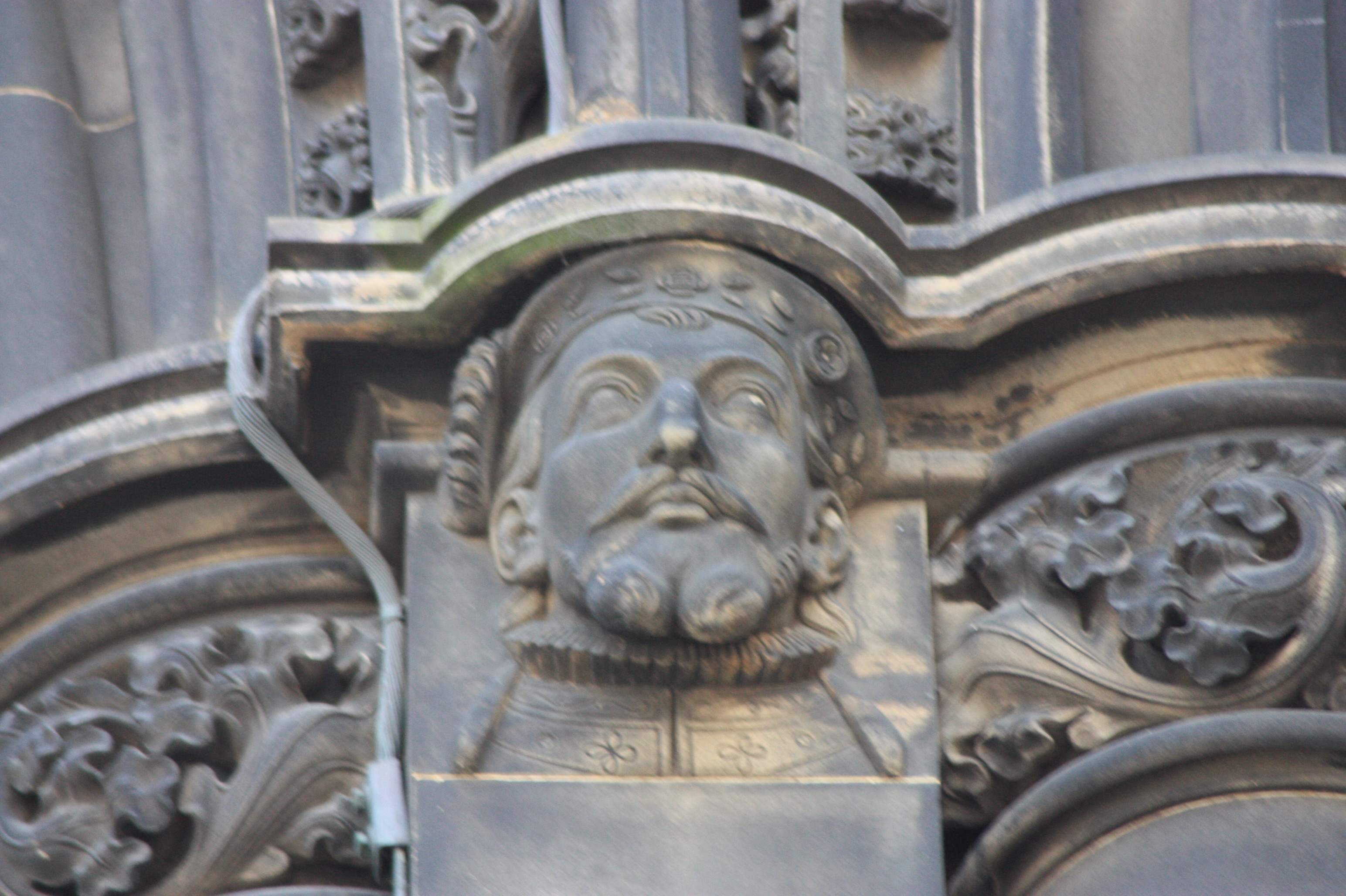 James V as appearing on the Scott Monument